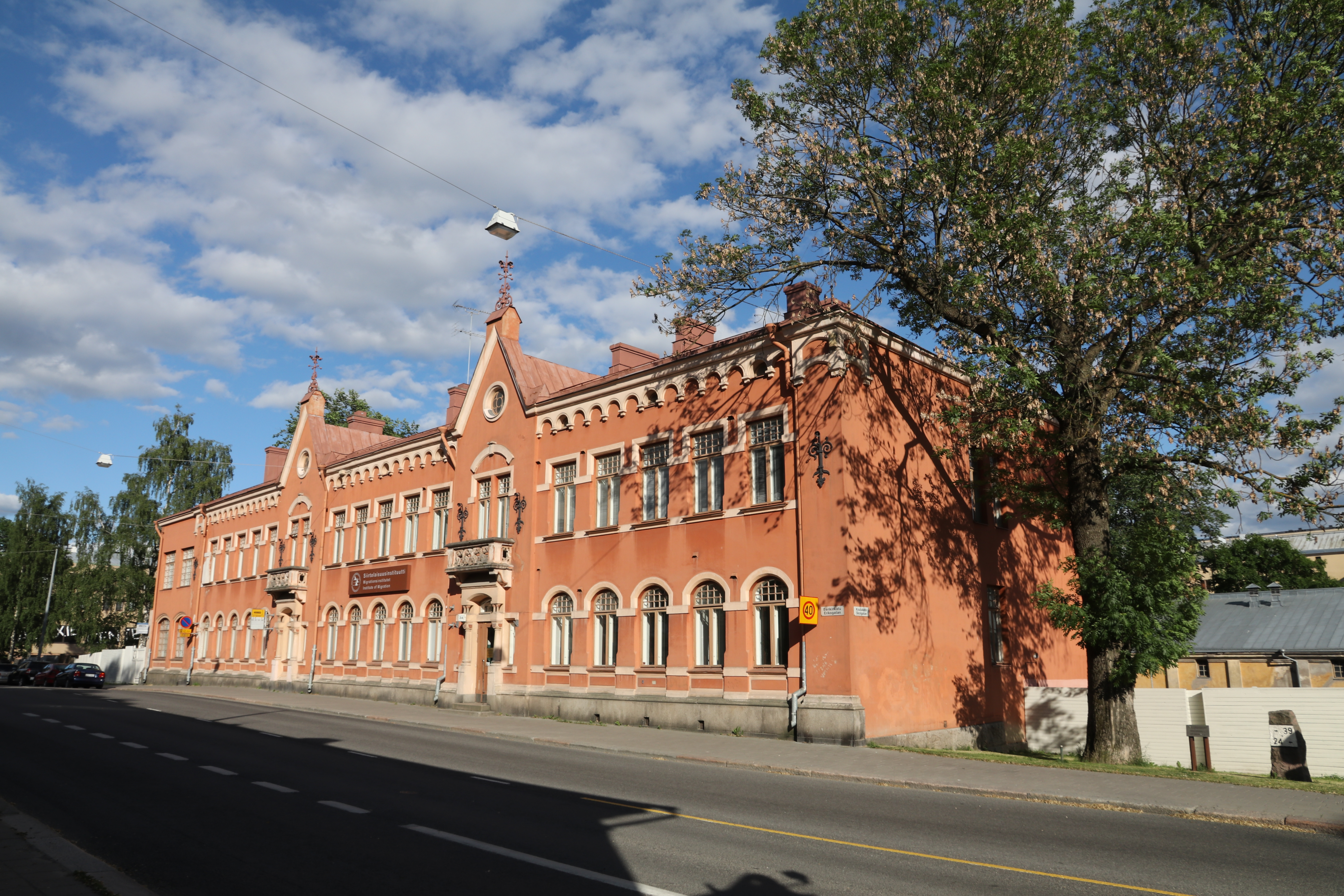 Immigration institute in Turku.